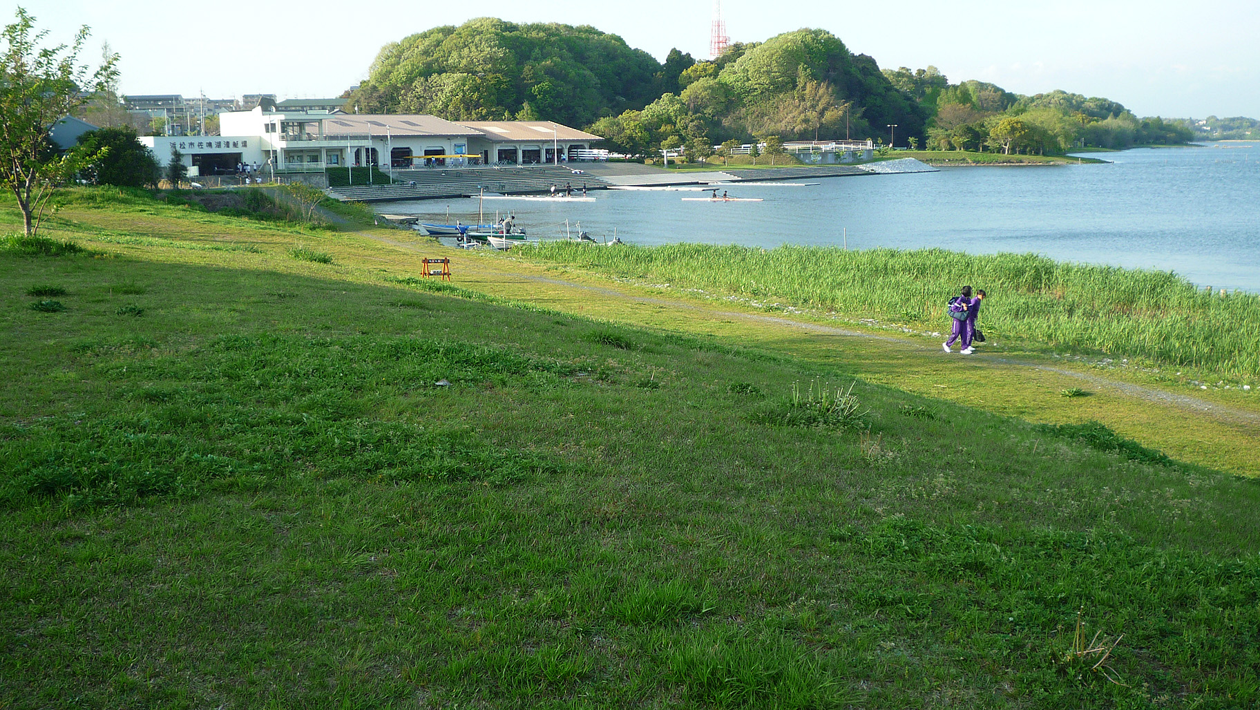 Lake Sanaru Boathouse; Hamamatsu, Shizuoka, Japan.